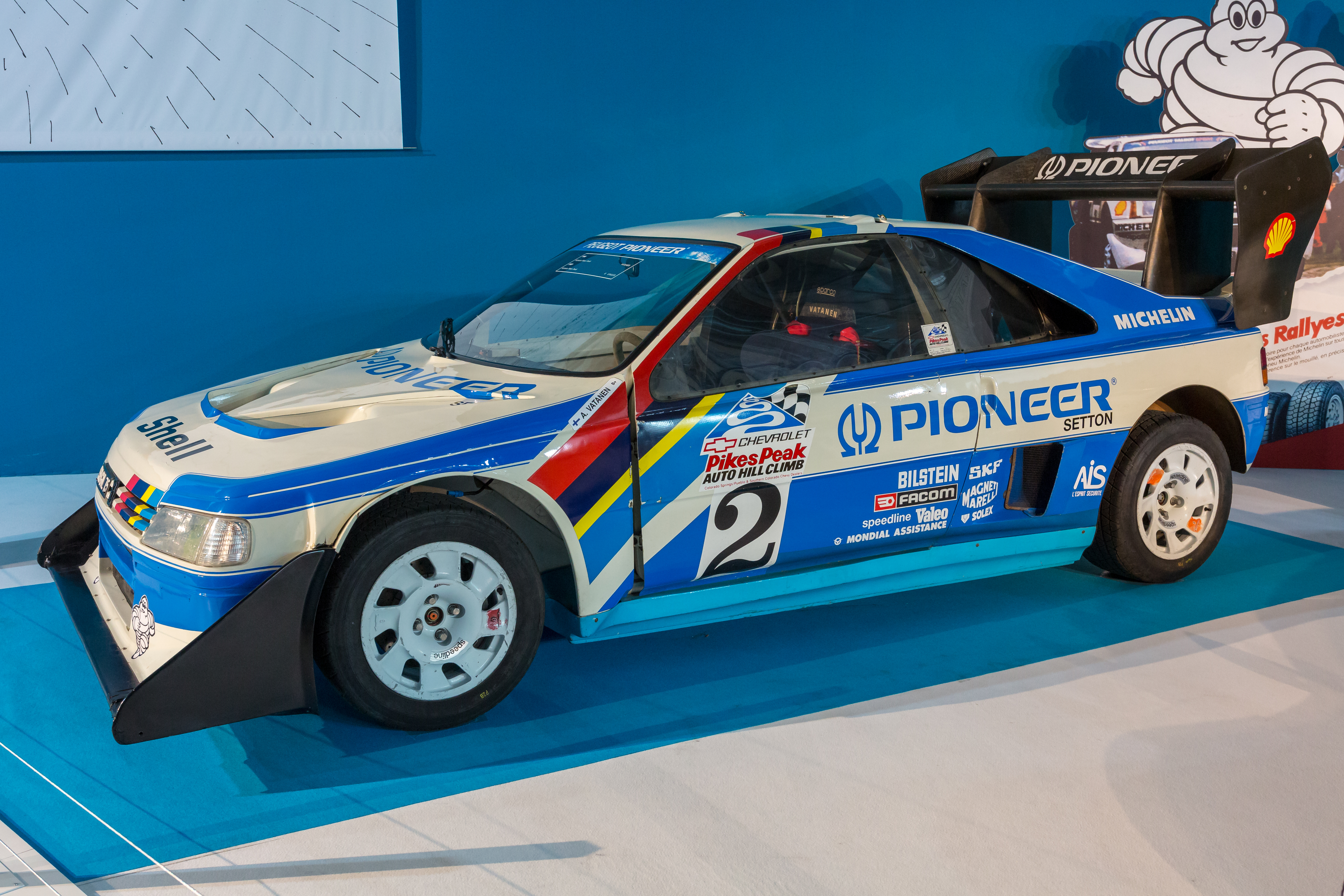 Peugeot 405 Turbo 16 Pikes Peak, Mondial Paris Motor Show 2018